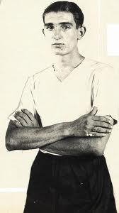 Argentinian footballer Vicente de la Mata